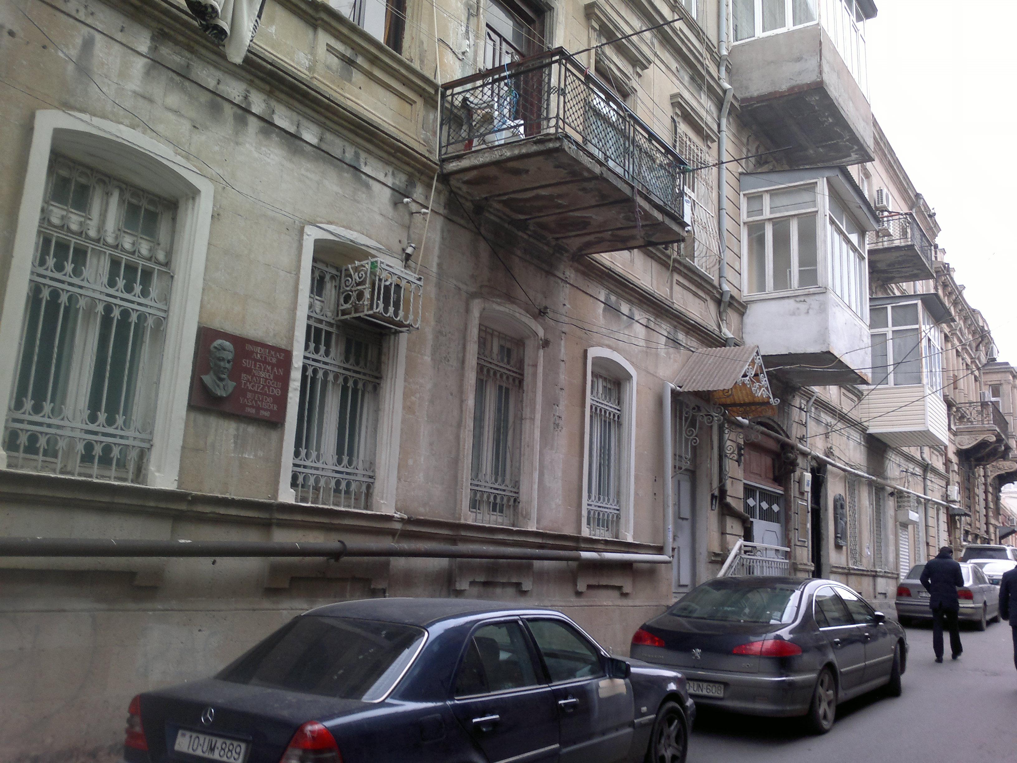 Building on Suleyman Taghizade Street 56. Famous writer Jalil Mammadguluzade and actor Suleyman Taghizade live here. Built in 1907.